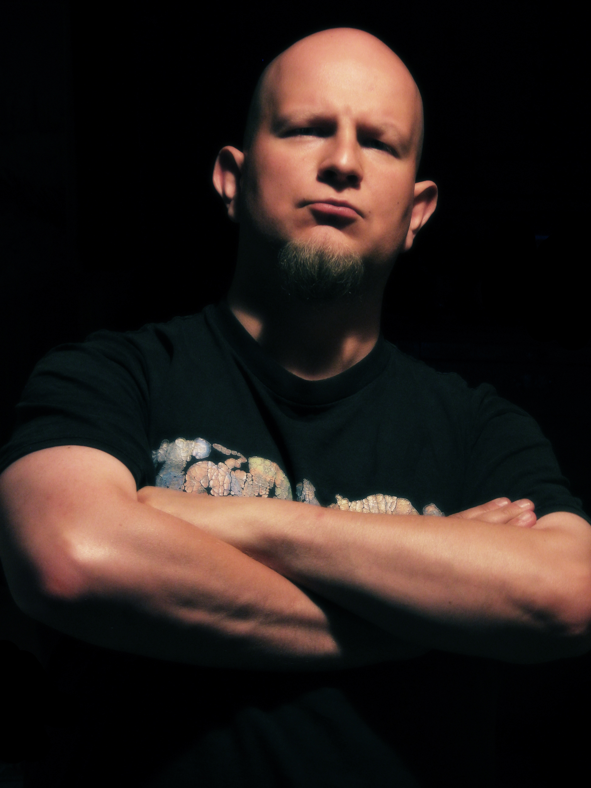 Publicity shot of crime writer Tuomas Lius